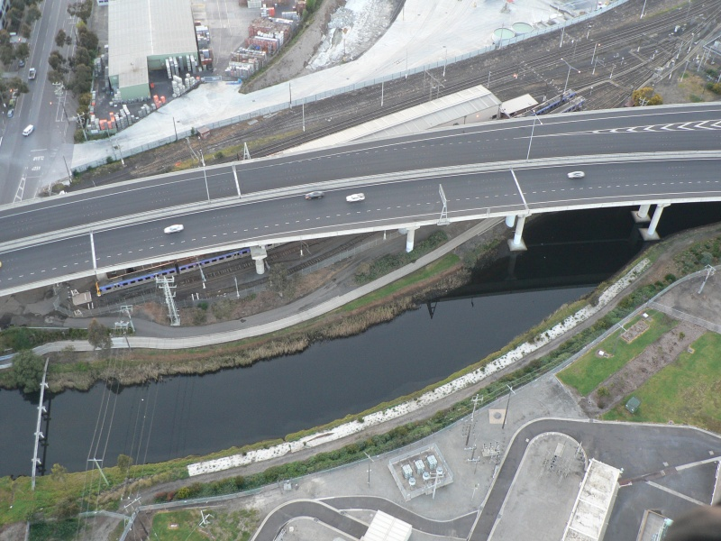 Aerial of Moonee Ponds Creek at North Melbourne